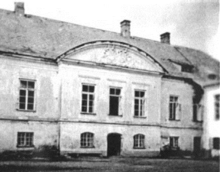 Reifensteiner Schule Finn Estland Wirtschaftliche Frauenschule Stift Finn in Estland 1922-1939 Besitzerin Adeliges Damenstift Johann Diedrichstein in Finn. Dem Reifensteiner Verband von 1926 bis etwa 1936 angeschlossen.